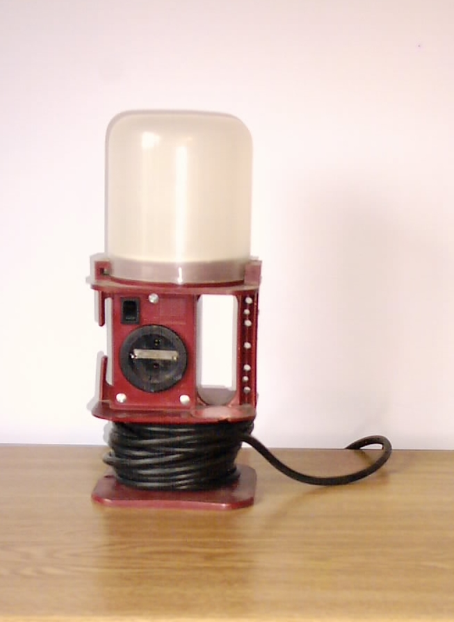 Photographer: Joe Quimby Source: Own Work (November 2006) Description: A typical cable lamp